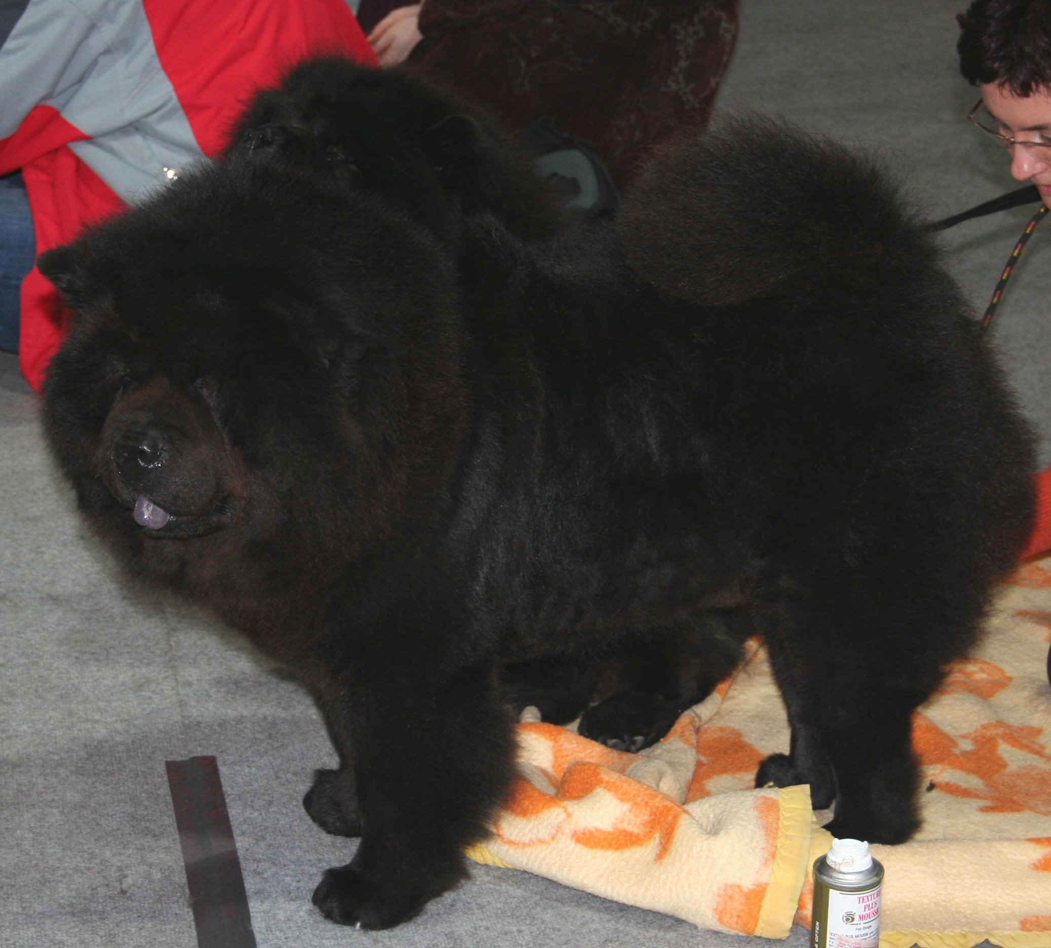 Chow_chow_during dogs show in Katowice, Poland